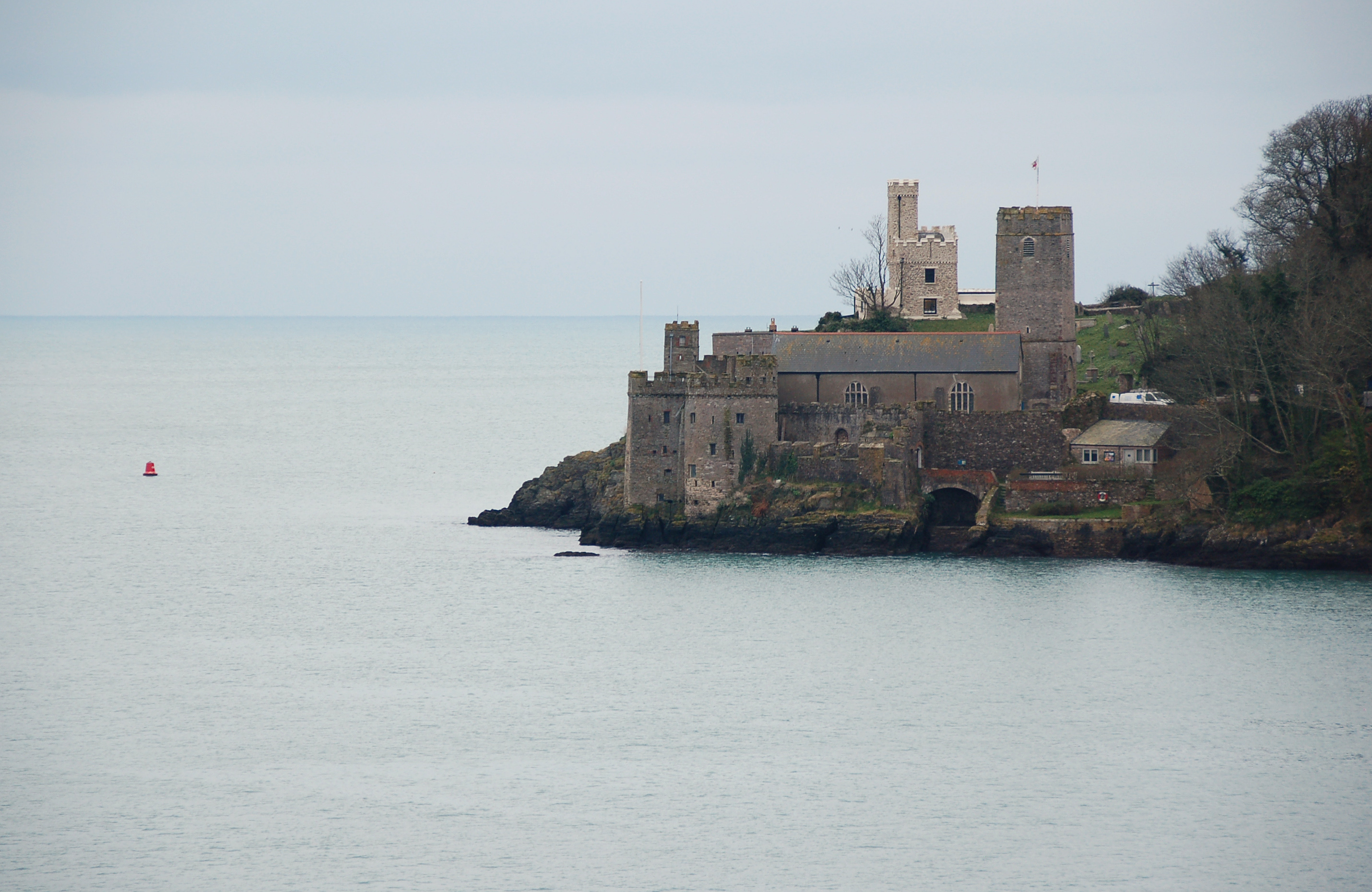 View of Dartmouth Castle, Devon from near Kingswear on the other side of the River Dart. The view is looking out towards the sea.